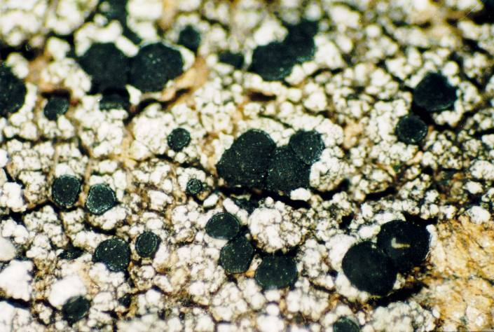 Lecidella carpathica Körber, 1861 Photograph of herbarium specimen taken through a dissecting microscope, x 25. (Chemical spot tests on the medulla: K+ pale yellow, C-, PD-) This specimen of Lecidella carpathica was growing on a boulder along the woodland edge on the western side of the high voltage power line clearing up hill (North) from Locust Run at the Soldiers Delight Natural Environment Area, Owings Mills, Baltimore County, Maryland, USA (N 39o24.218', W 76o50.582'). Collected and identified by E.C. Uebel (No. U-639, 19 Jul 2006).